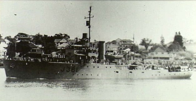 The Royal Australian Navy Bathurst class corvette HMAS Parkes